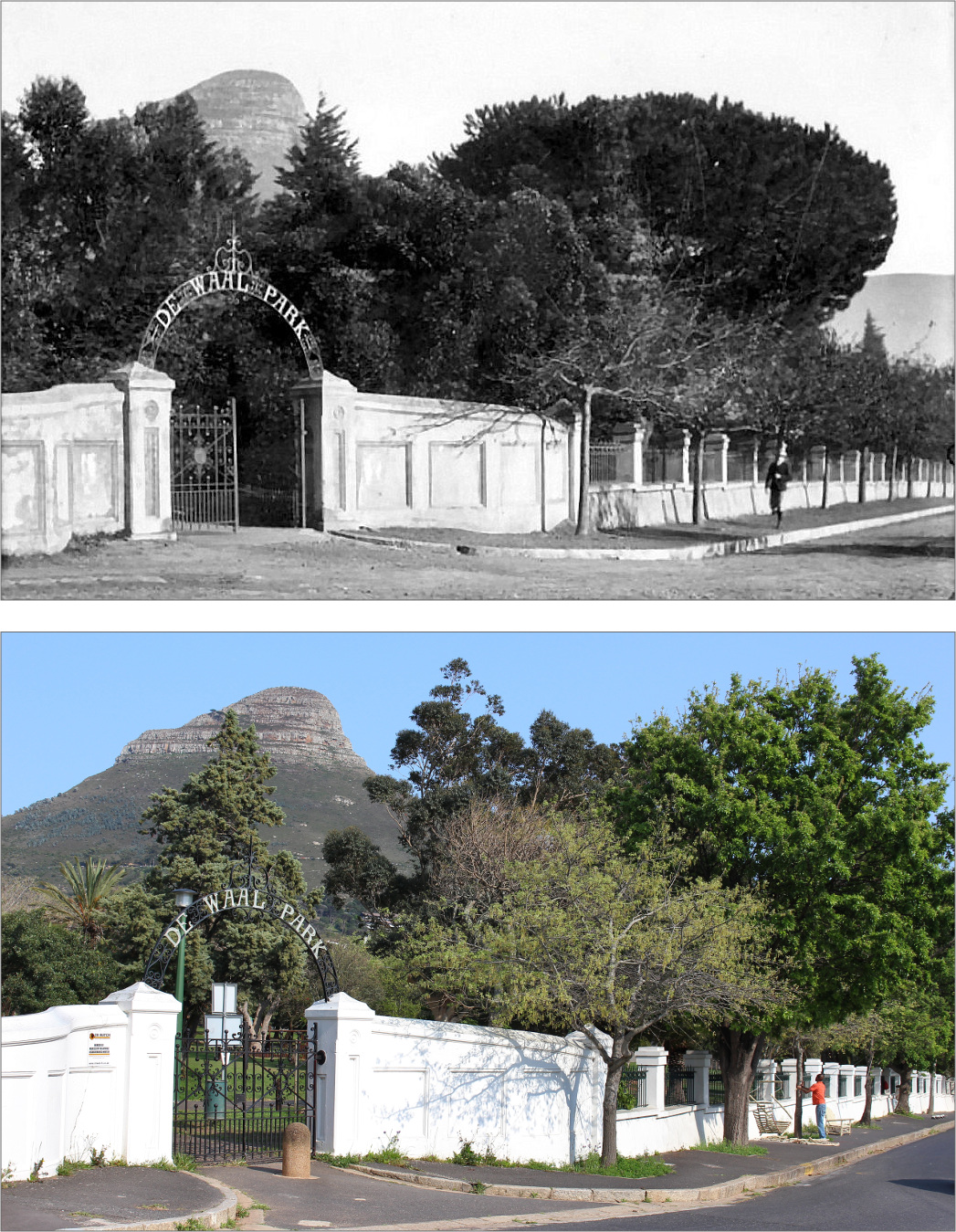 De Waal park entrance circa 1900 vs 2015. This media shows a South African Protected Site with SAHRA file reference 9/2/018/0139.